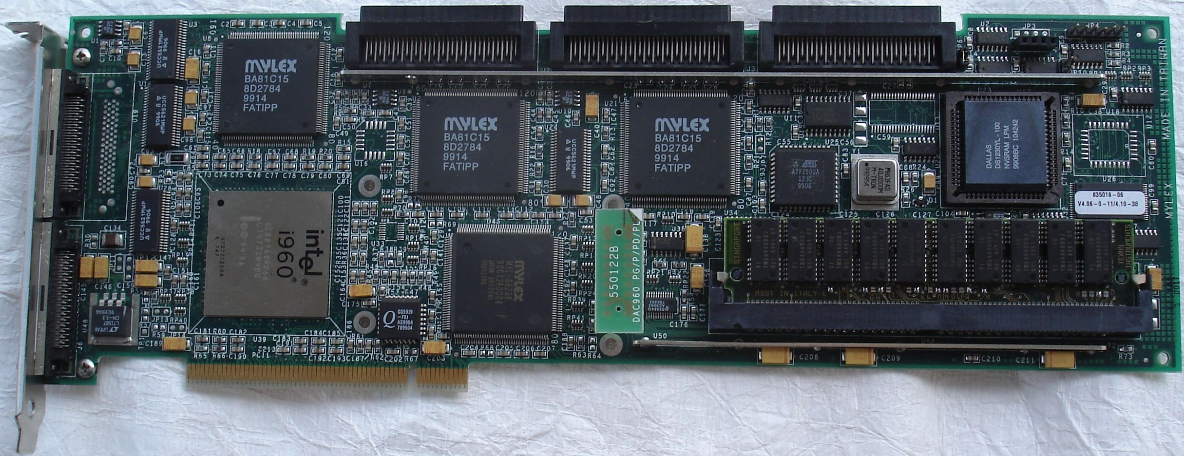 mylex 3-channel Ultra SCSI RAID Controller PCI card with i960 and 4MB EDO RAM